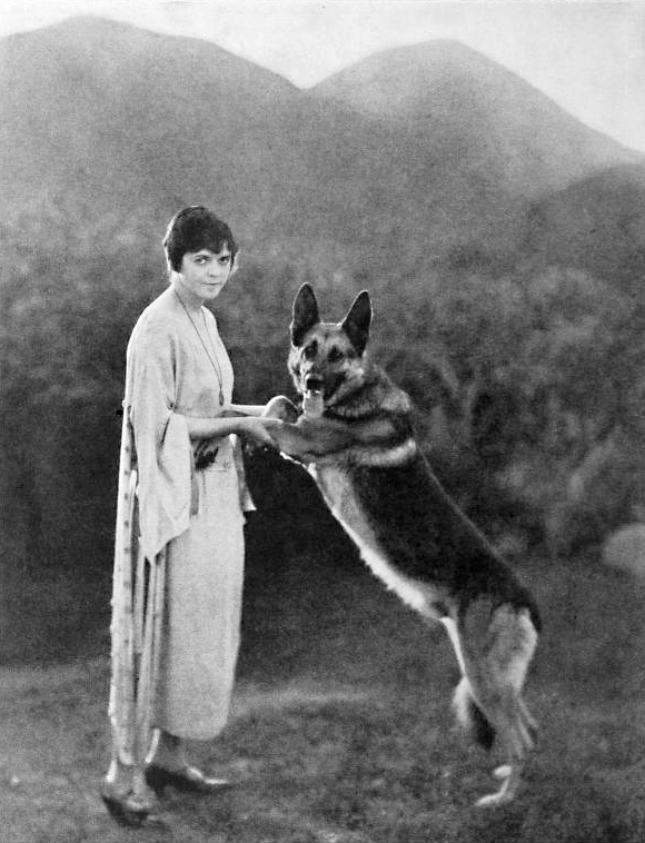 Photograph of screenwriter-producer Jane Murfin and the dog star Strongheart